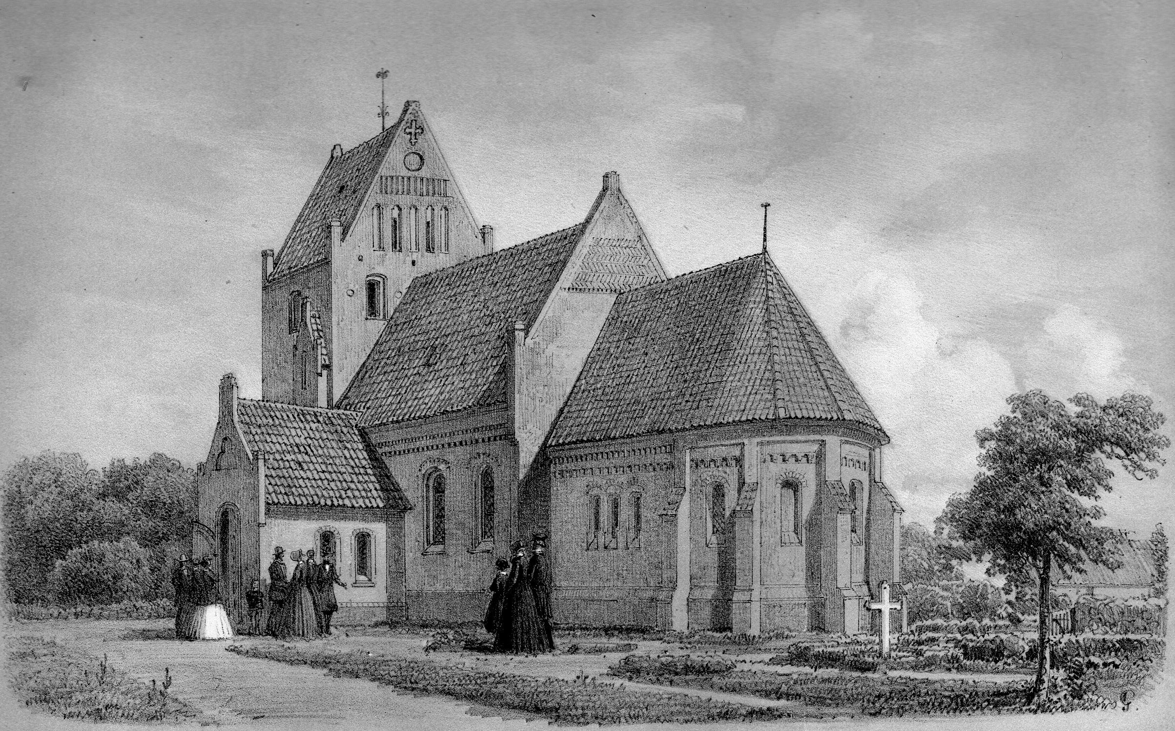 Scanned by myself from a copy of the old book in 2007. The book was graciously lent to me by Det Kongelige Garnisonsbibliotek.